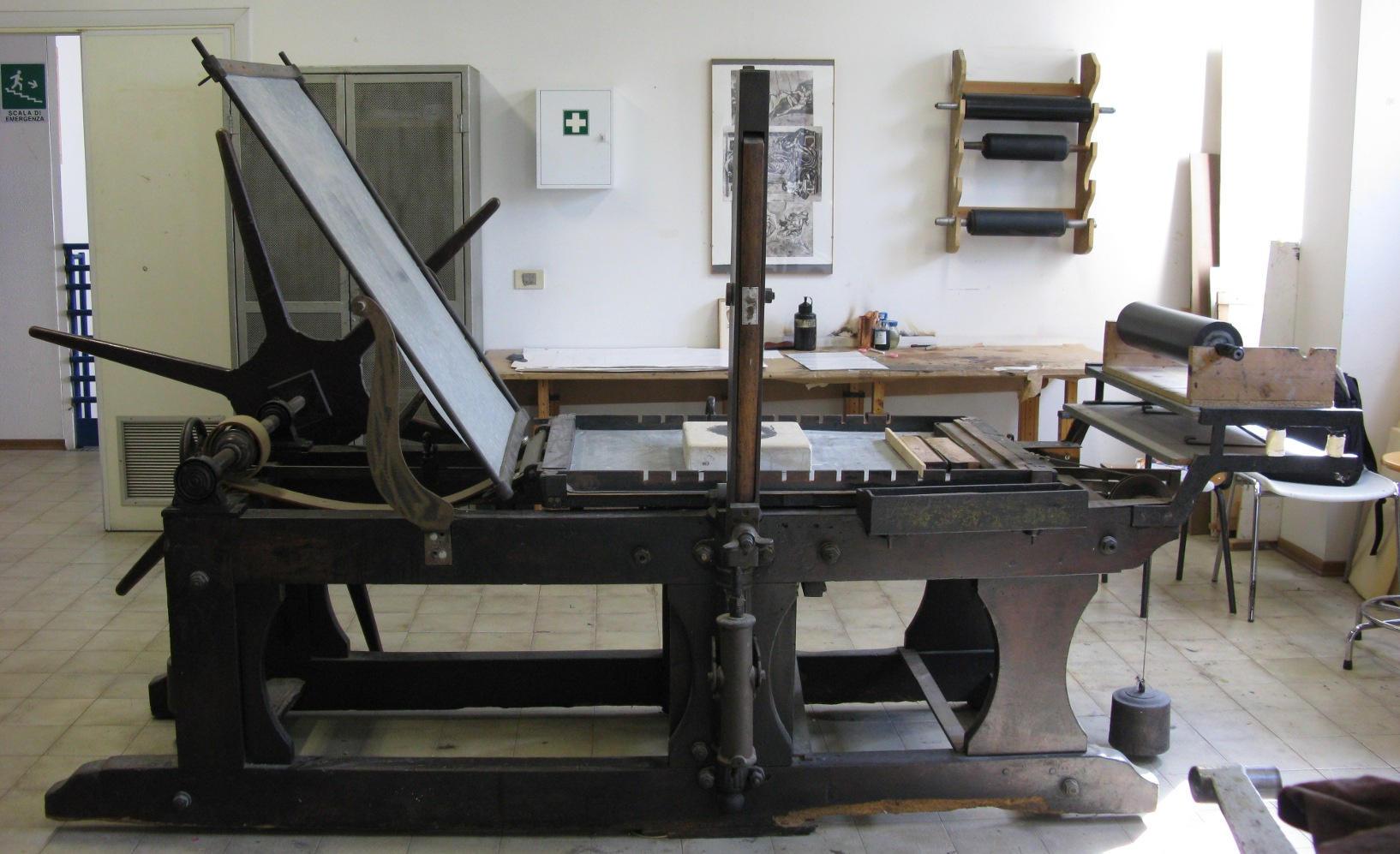 Litography printing press.